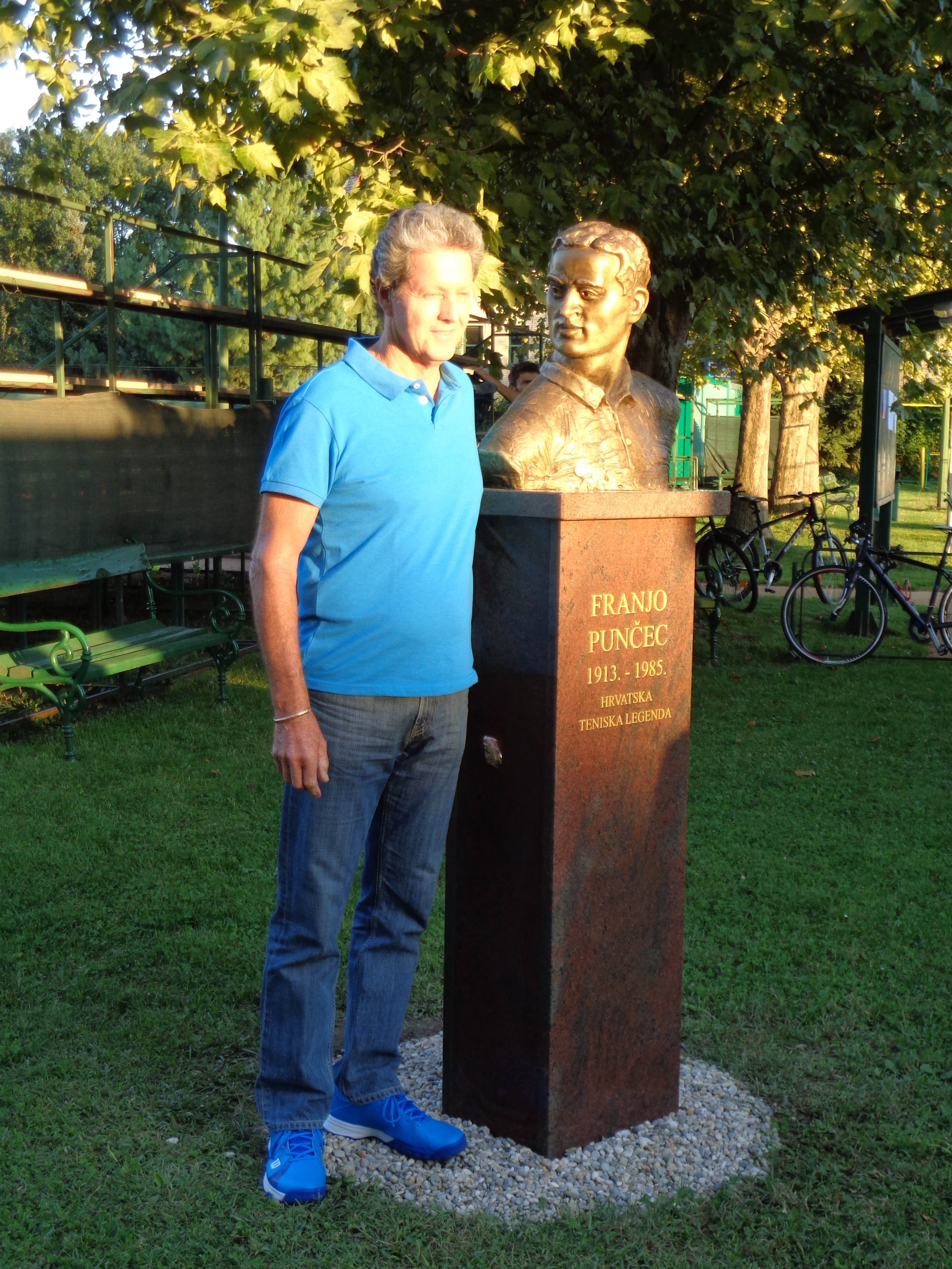 Frank Igor Punčec (b.1951), retired South African tennis player, a son of Franjo Punčec, top-level Croatian tennis player, at his father's bust in Čakovec, Croatia, home town of his parents Franjo and Zorica